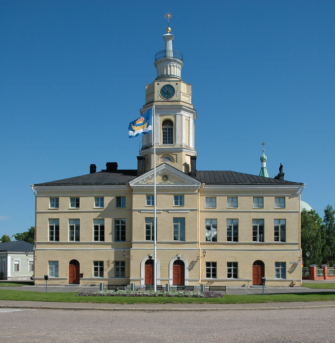 City hall in Hamina/Fredrikshamn, Finland.